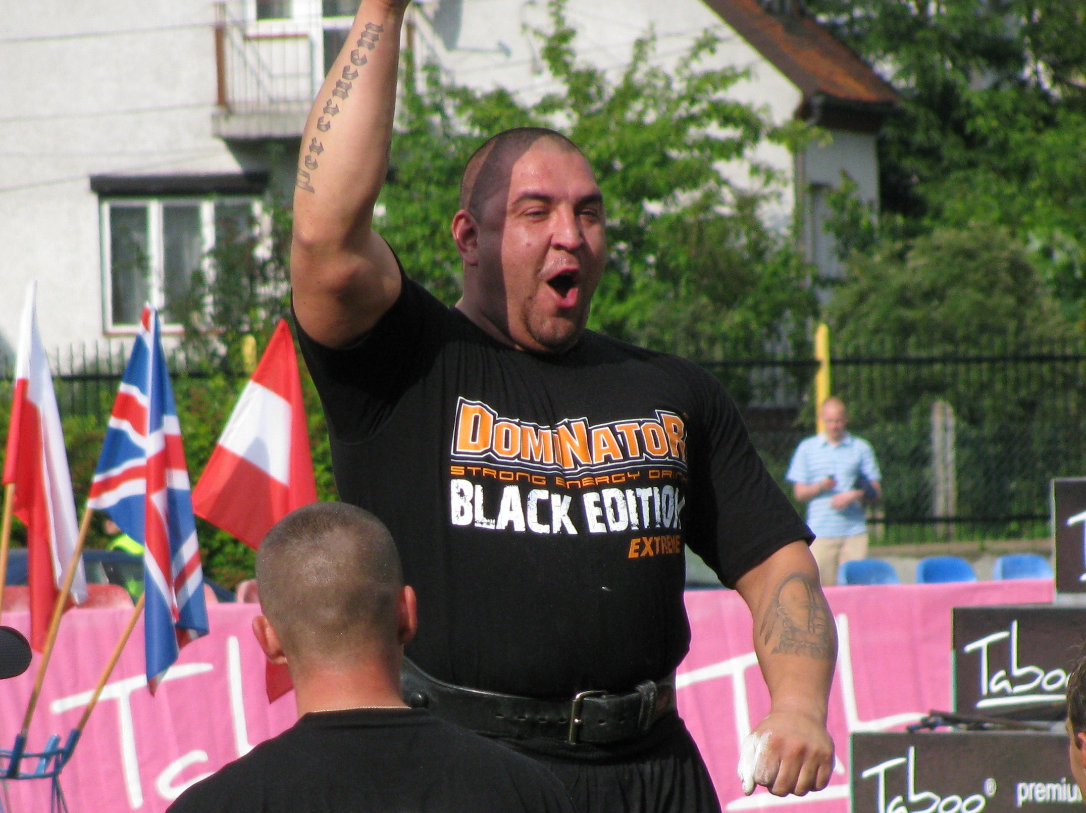 Raivis Vidzis - a strength athlete from Latvia